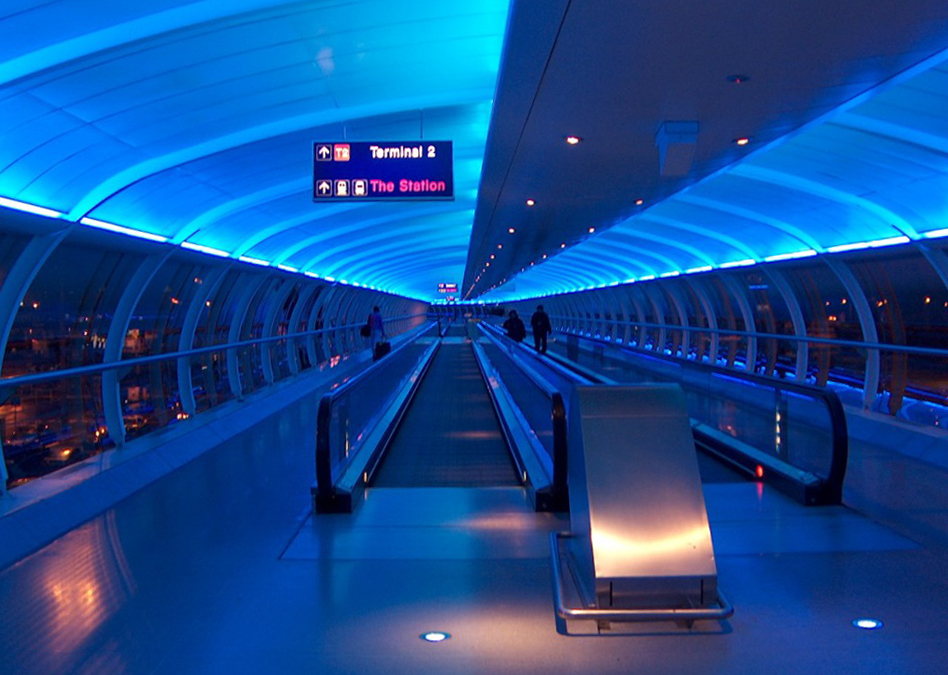 Manchester Airport terminal 2